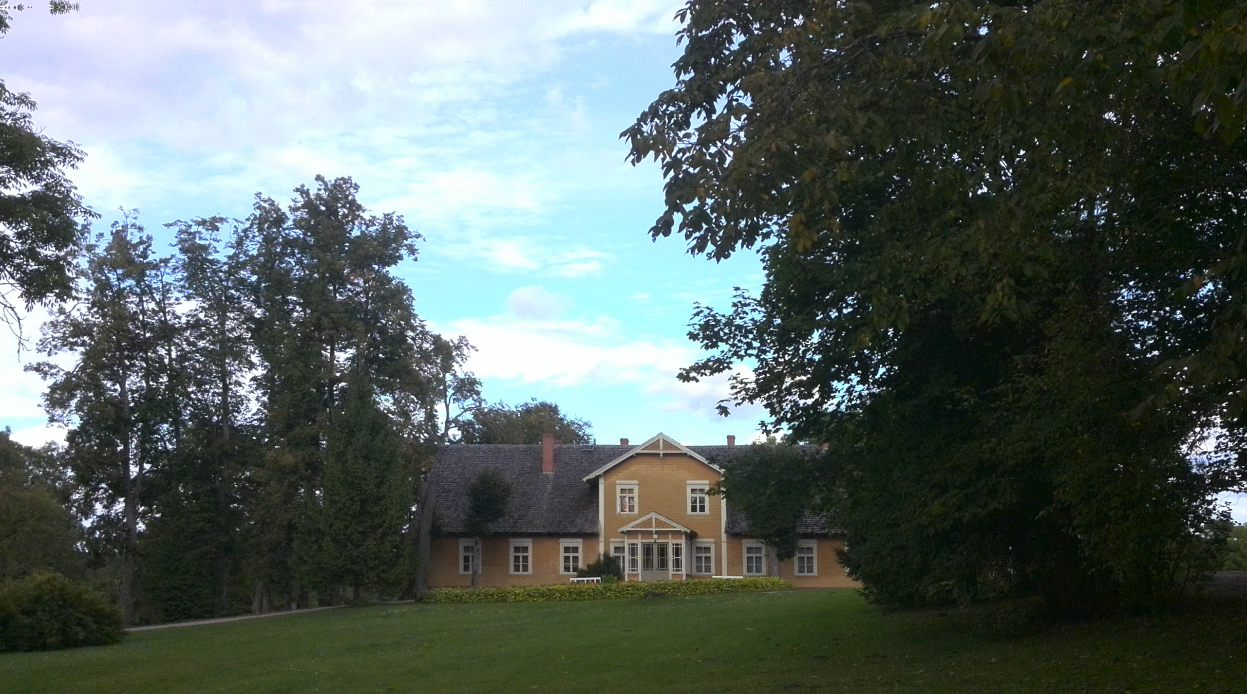 Steward's house in the Turaida estate, Sigulda